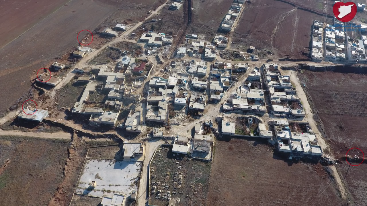 Aerial view of the village of Maraanaz in northwestern Syria, southwest of Azaz.